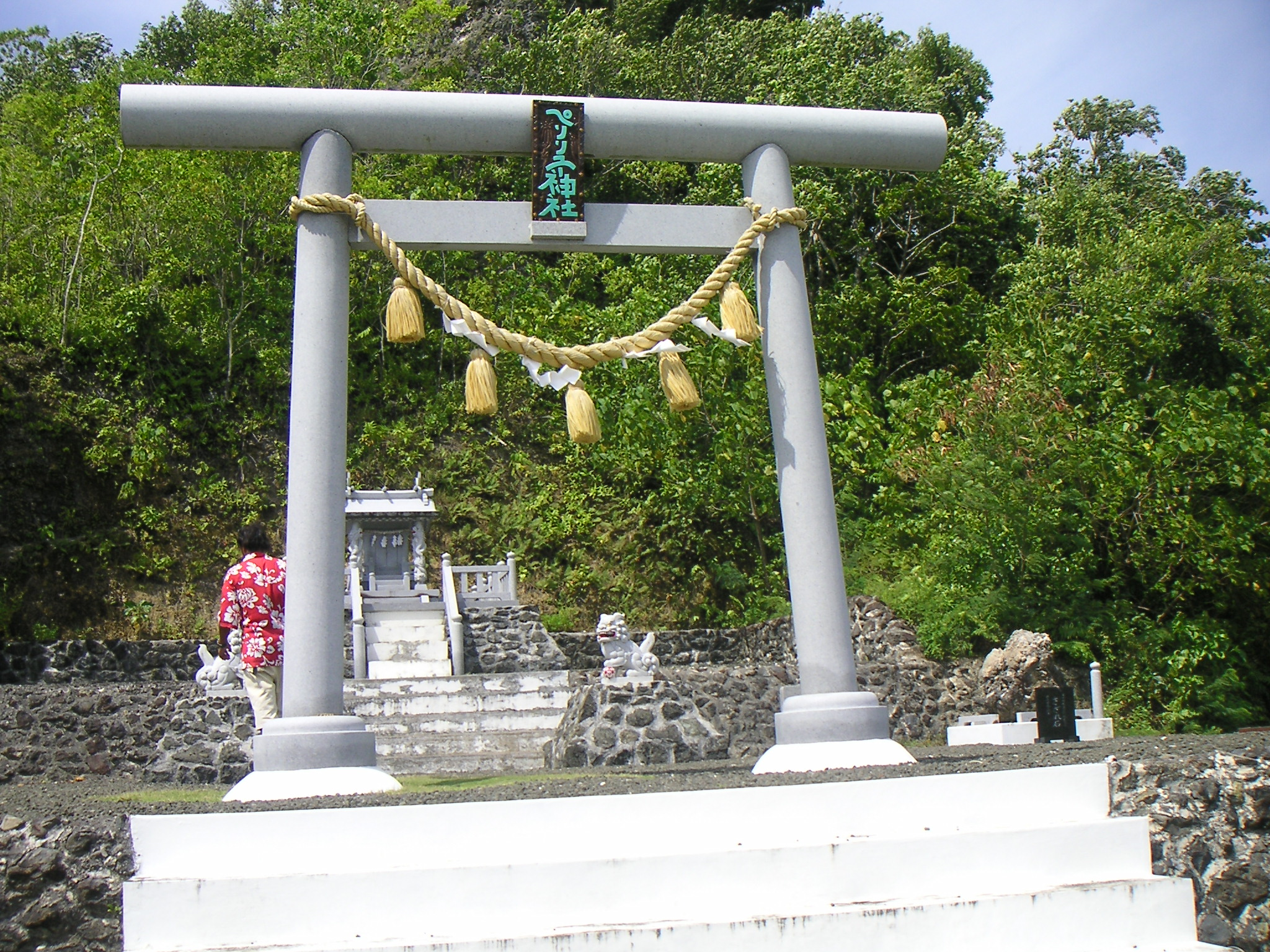 This is PELELIU JINJYA(in English "PELELIU SHRINE") at the Peleliu island, Palau.